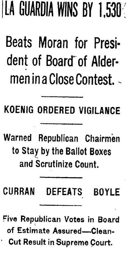 headline of laguardia victory